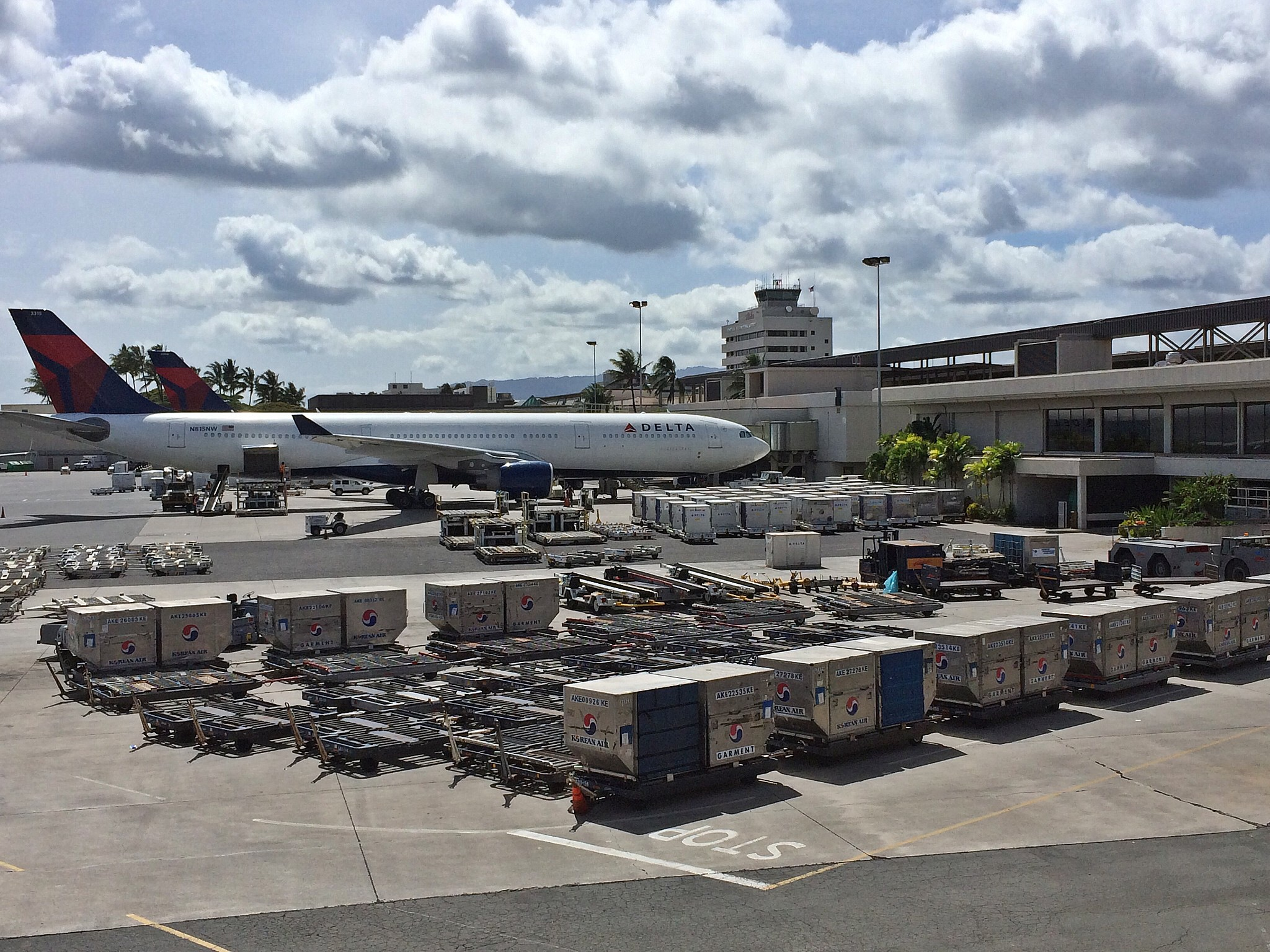 Aircraft waiting at HNL Overseas Terminal